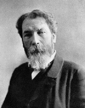 Photograph of the scientists, Pictet